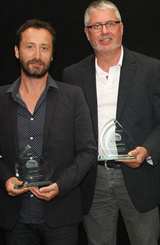 Franck Marchal at Giant Screen Cinema Association (Toronto 2014)